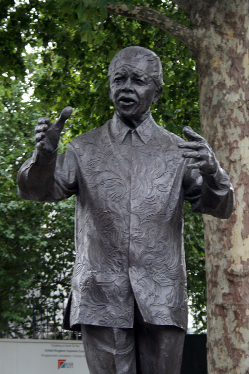 Nelson Mandela statue by Ian Walters, London/UK